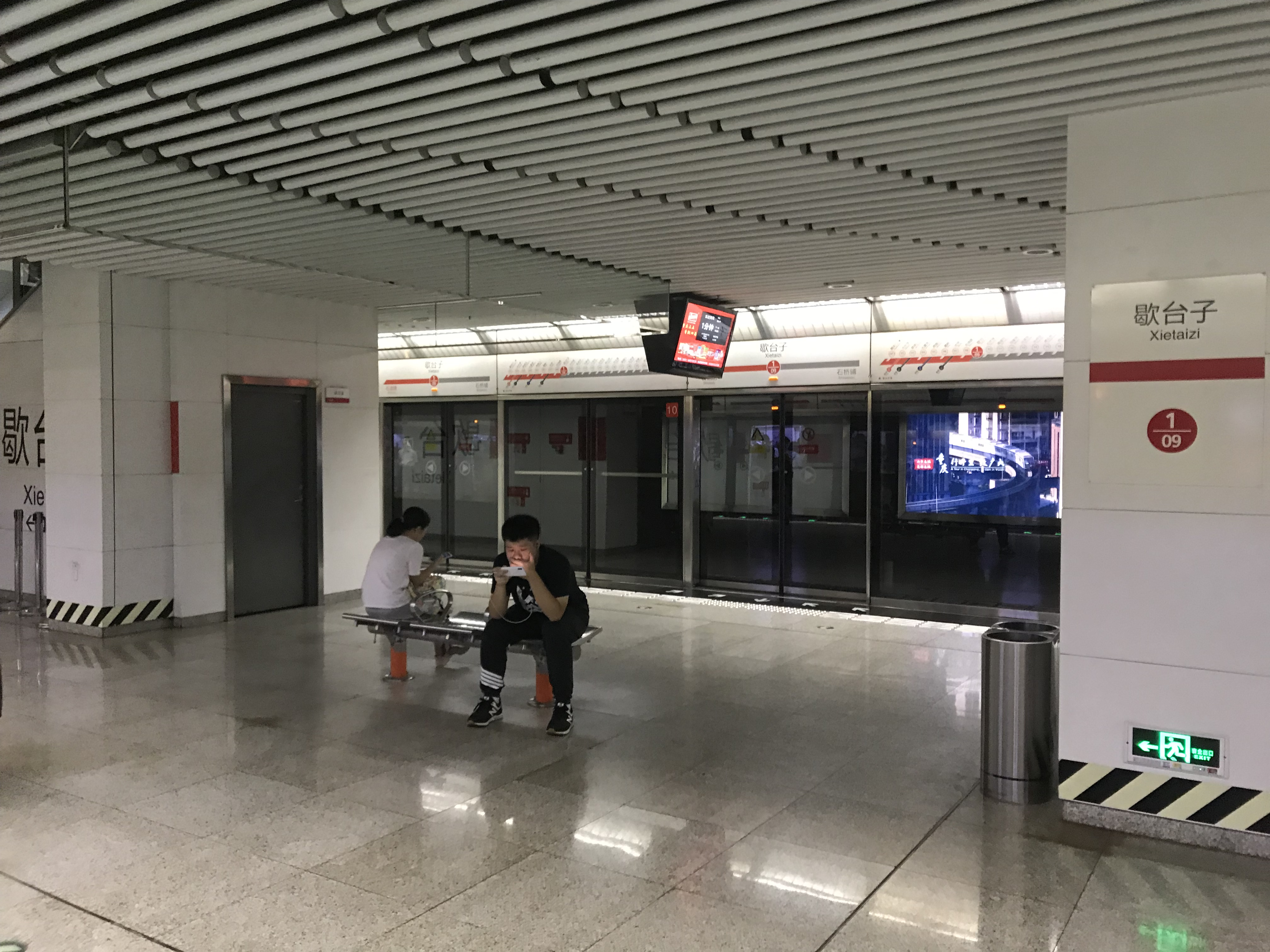 201908 Xietaizi Station Platform